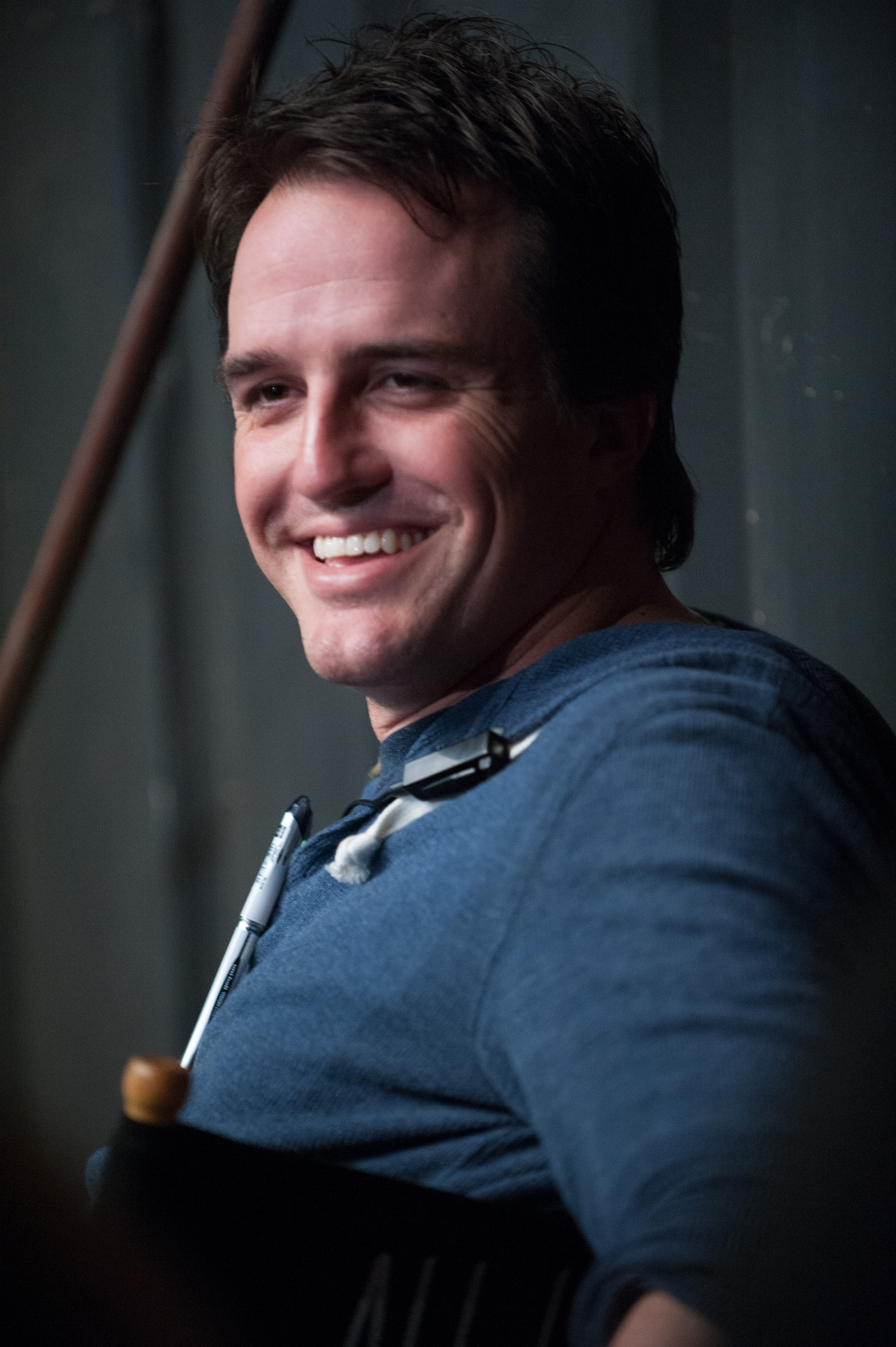 photo of film producer Neal Dodson on the set of All Is Lost in Baja Mexico.